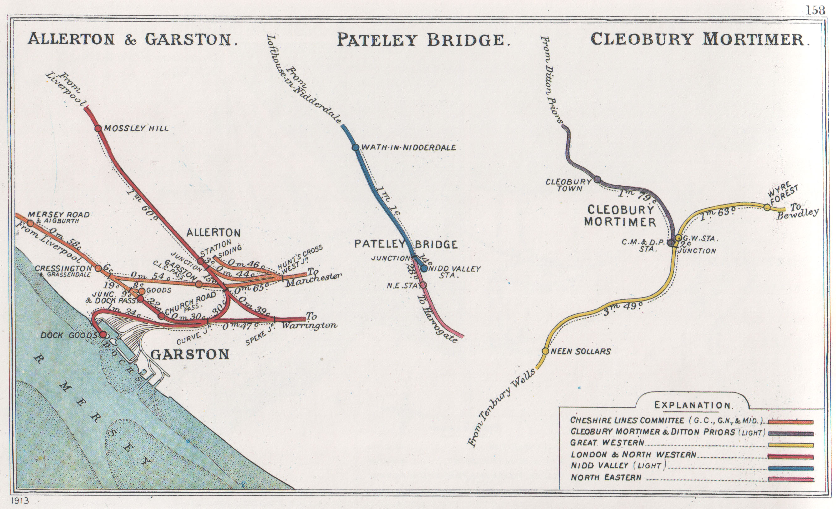 Pre Grouping railway junction around Allerton & Garston; Pateley Bridge; Cleobury Mortimer